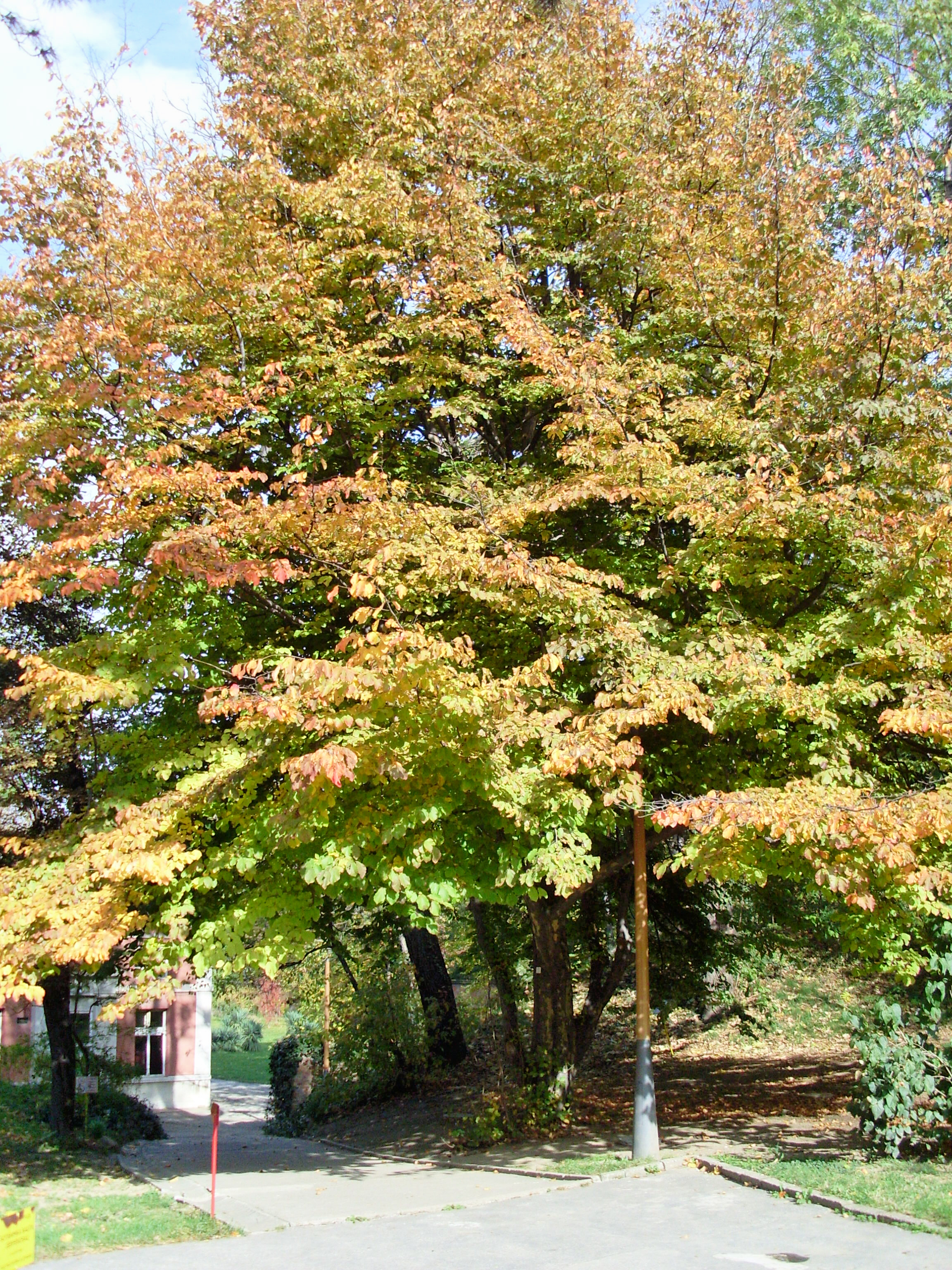 parrotia persica, in the botanical garden jevremovac